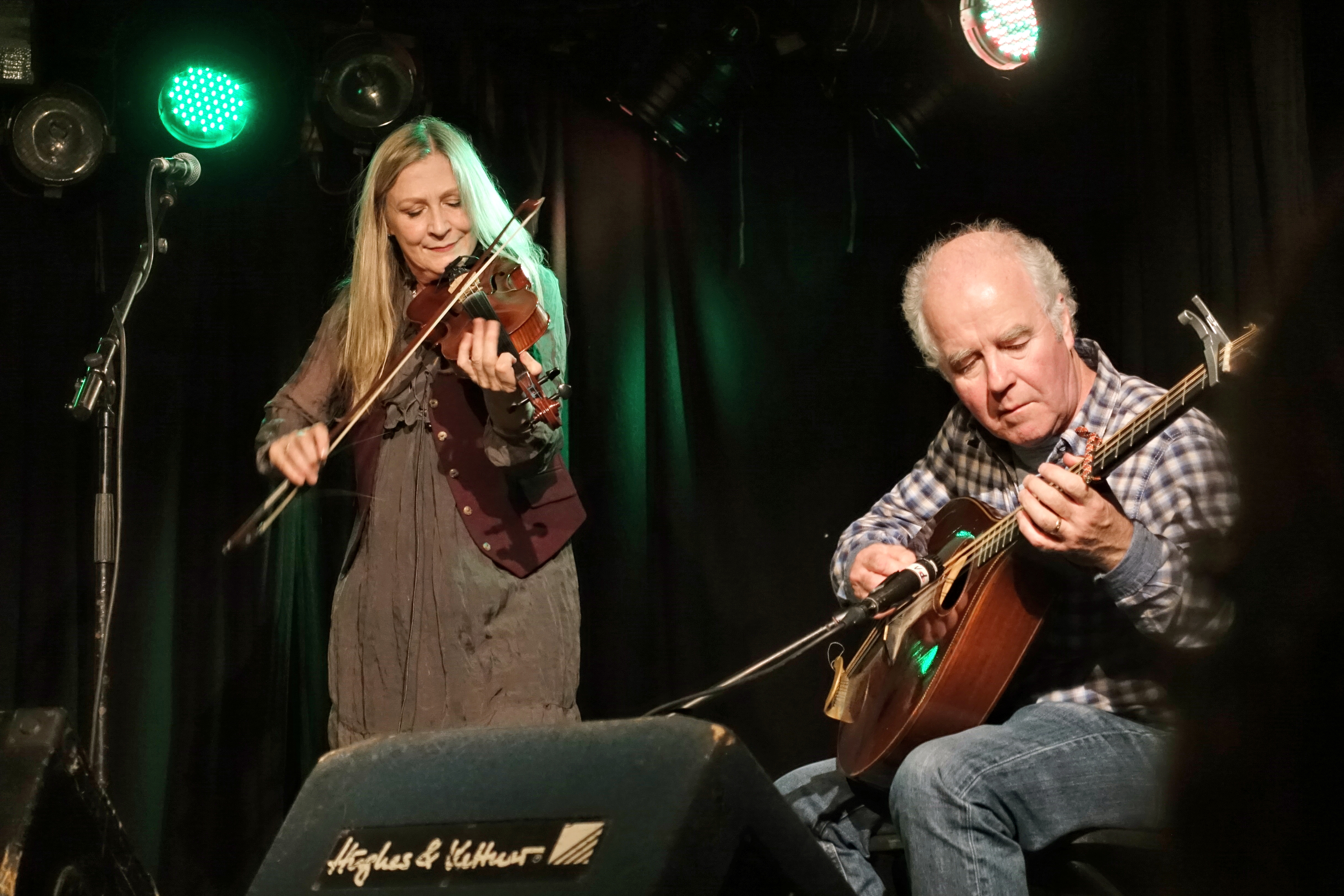 Altan in the Markthalle Hamburg (small stage)